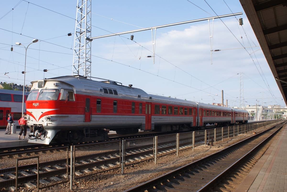 DMU type DR1A at Vilnius station, Lithuania